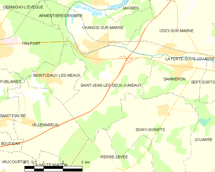 Map of French municipality Saint-Jean-les-Deux-Jumeaux